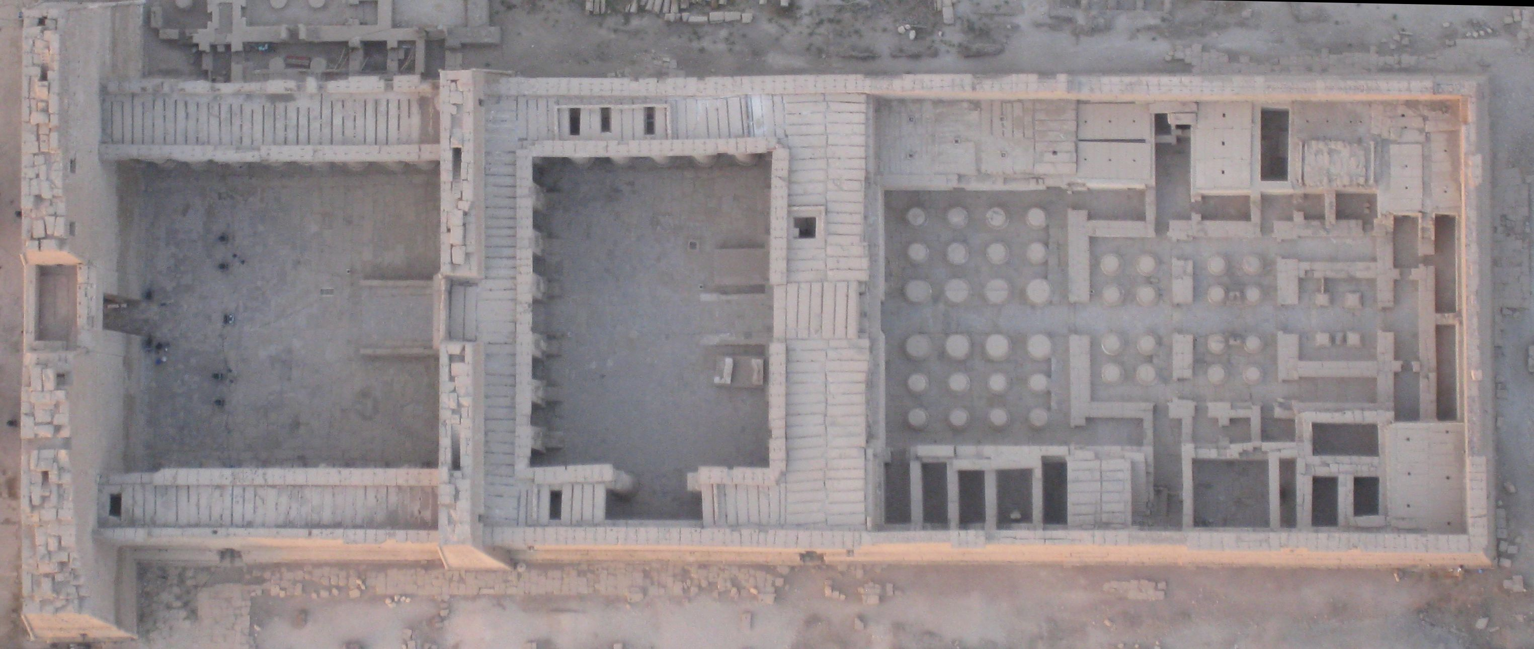 Aerial view of Medinet Habu, Luxor, Egypt